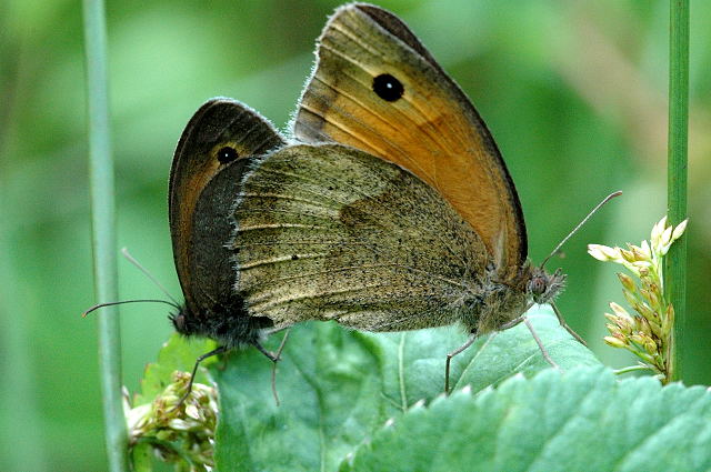 Picture taken in Commanster, Belgian High Ardennes . Species: Maniola jurtina couple